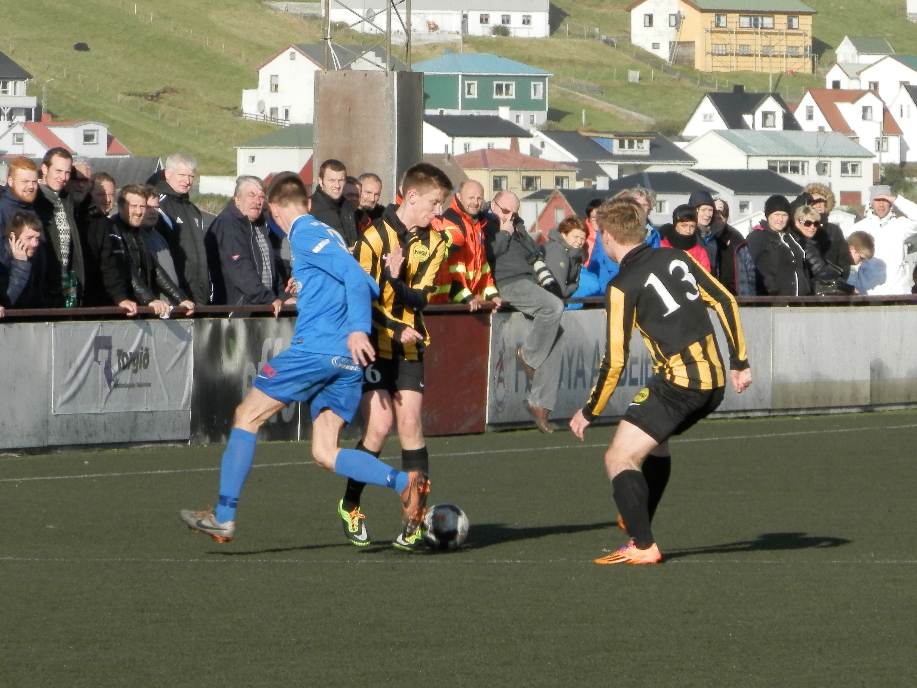 FC Suðuroy vs NSÍ Runavík in the men's first division (the second best division of the Faroe Islands) in 2014. This was the last match of the 2014 season. FC Suðuroy won 3-1 and became number 2. They got promoted to Effodeildin.